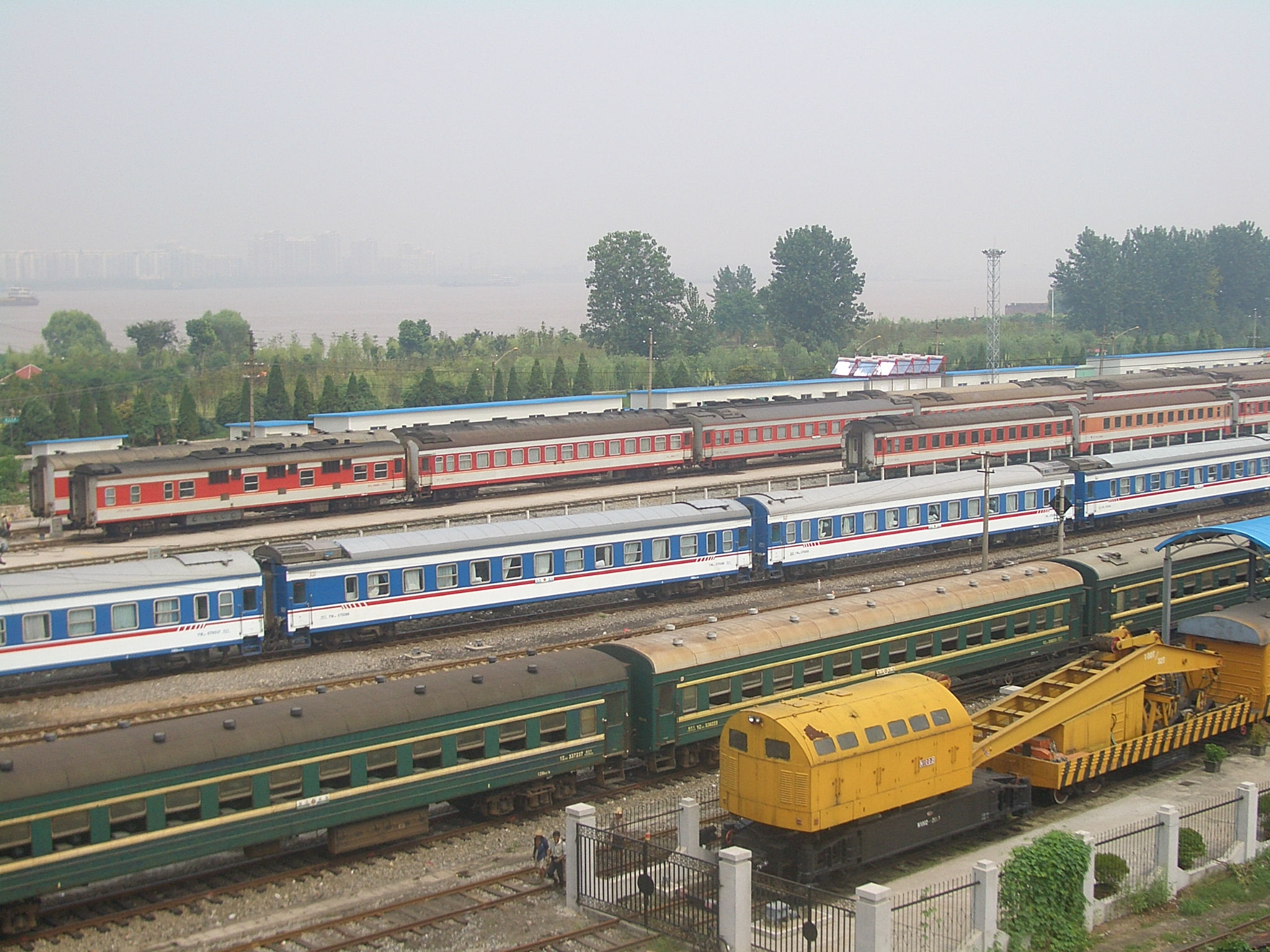 Passenger train sets parked near the Yangtze River in the north-eastern Wuchang (just north-east of Wuhan's Second Changjiang Bridge, and the former Wuchang North Railway Station 武昌北站) to be washed etc.